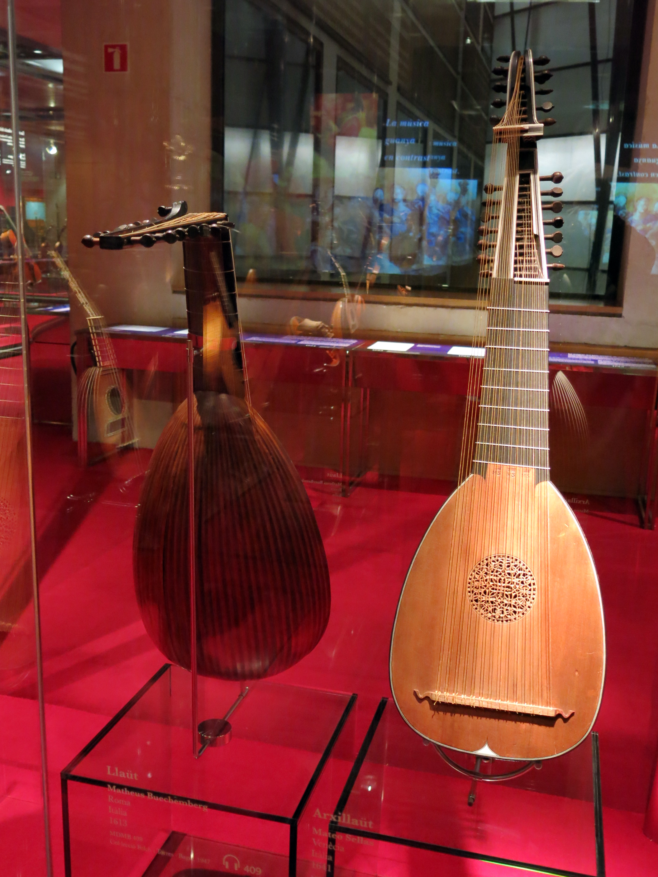 Lute, Matthäus Bückenberg, Roma, 1613, MDMB 409 ; archlute, Matteo Sellas, Venetia, 1641, Museu de la Música de Barcelona References MDMB 409: llaüt, Matthäus Büchenberg (1613). Catalogue online, Museo de la Música. MDMB 403: arxillaüt, Matteo Sellas (1641). Catalogue online, Museo de la Música.